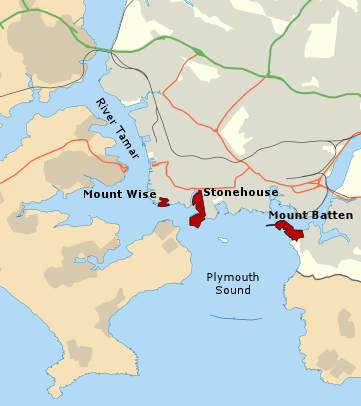 Map showing the three sites involved in the Plymouth Development Corporation, 1993-1998